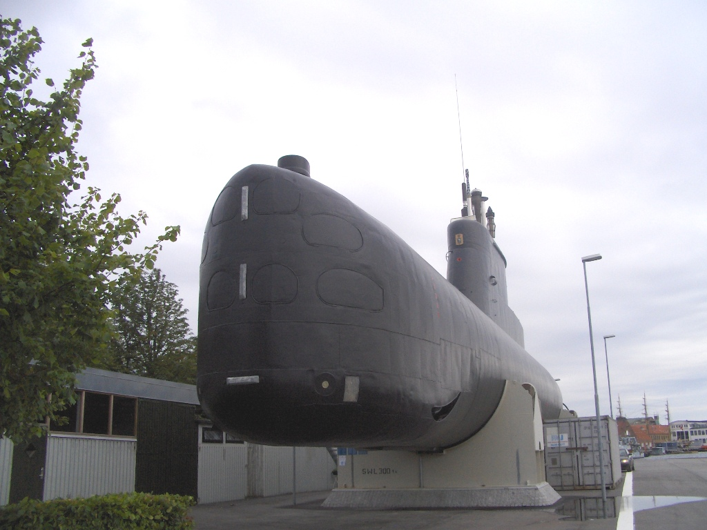 Decomissioned danish submarine Saelen